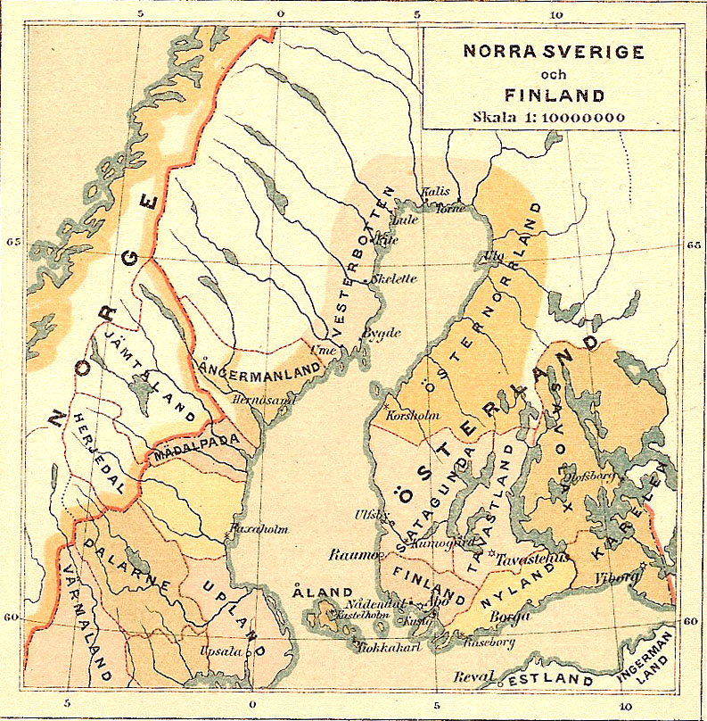 Historic map of nothern Sweden and Finland during the scandinavian union